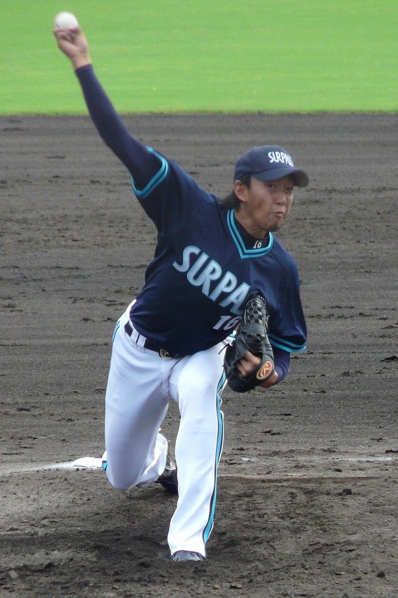 Yoshihisa Hirano, pitcher of the Surpass, at Hanshin Naruohama Baseball Ground.